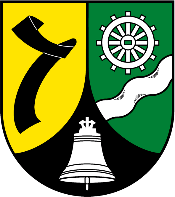 Coat of arms of Unzenberg